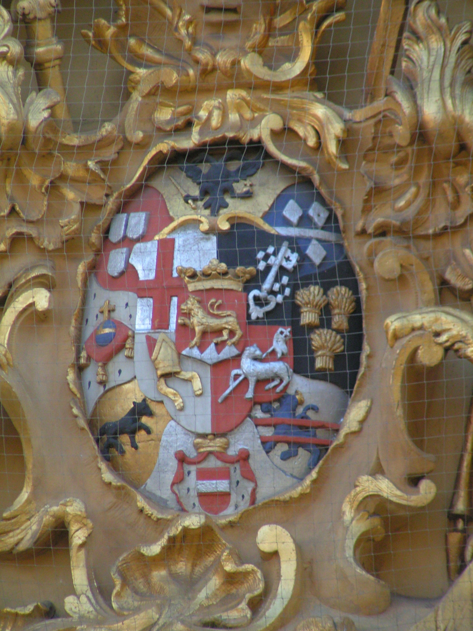 St. Paulin, Trier, Germany